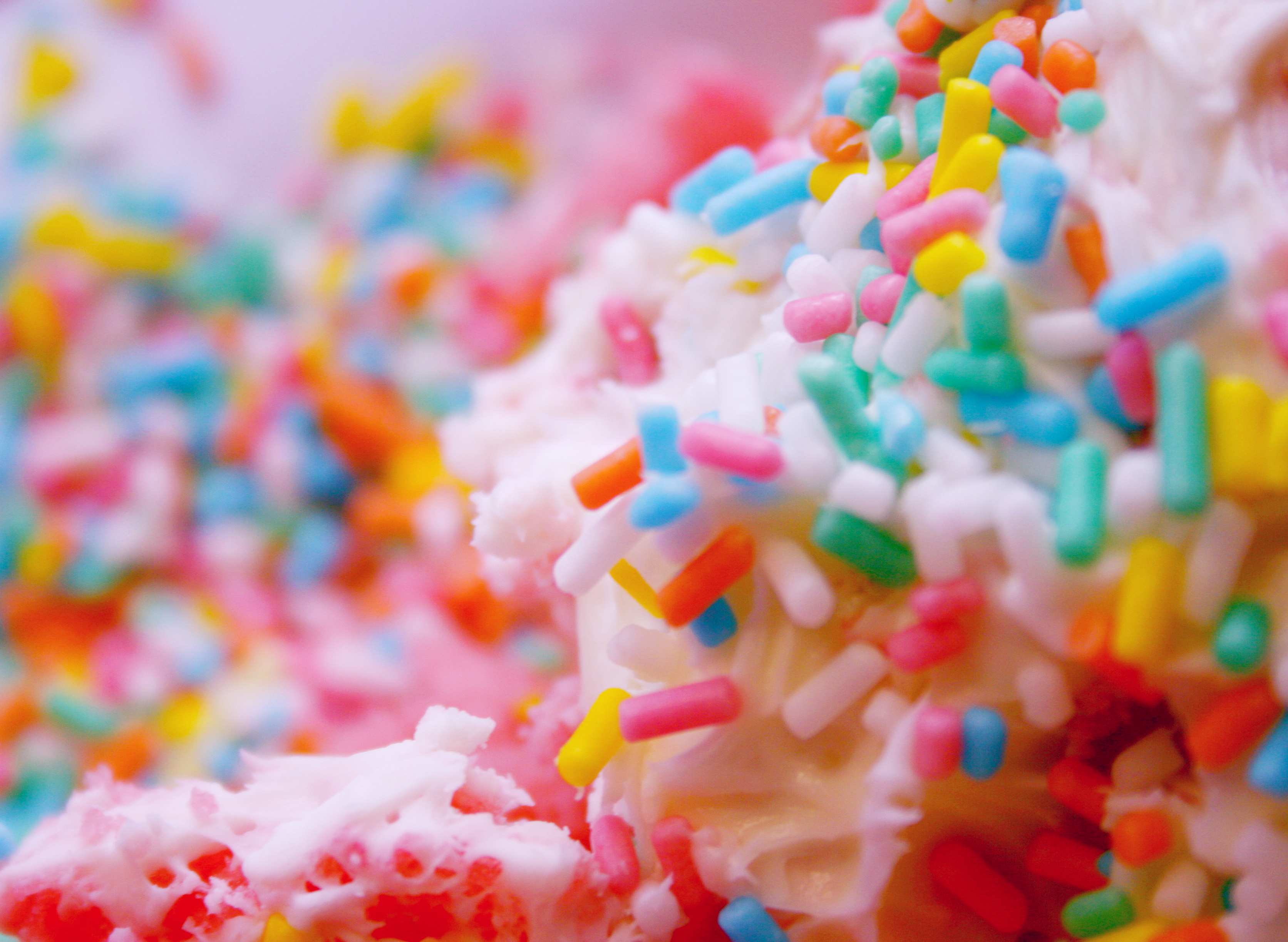 Click to SEE Pink Sherbet Photography on Getty Images! Photographer, D. Sharon Pruitt Owner of Pink Sherbet Photography Official Website, Contact Email, My photos that have a creative commons license and are free for everyone to download, edit, alter and use as long as you give me, "D Sharon Pruitt" credit as the original owner of the photo. Have fun and enjoy!